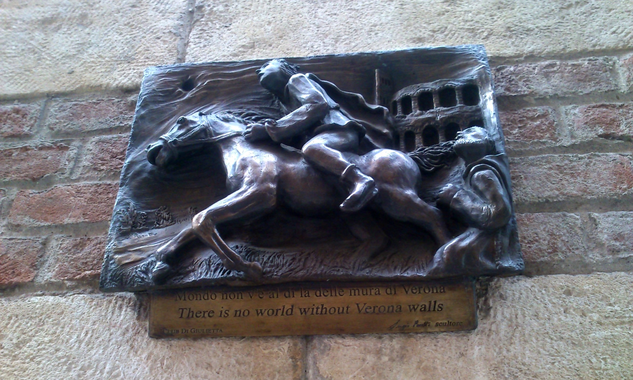 Plaque on the Romeo House in Verona